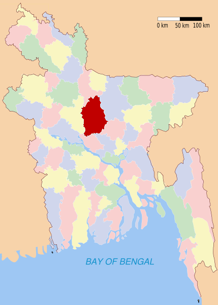 District locator map in red in Bangladesh